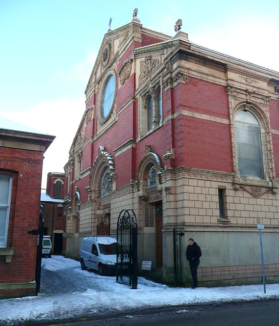 North end of St Wilfrid's Church, Chapel Street, Preston This is a Roman Catholic church run by the Jesuits.